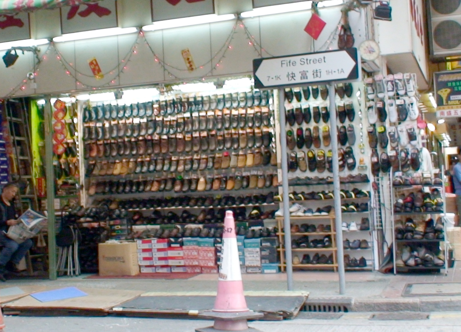 A local version of Shoe store (鞋鋪) in Mong kok , Hong Kong